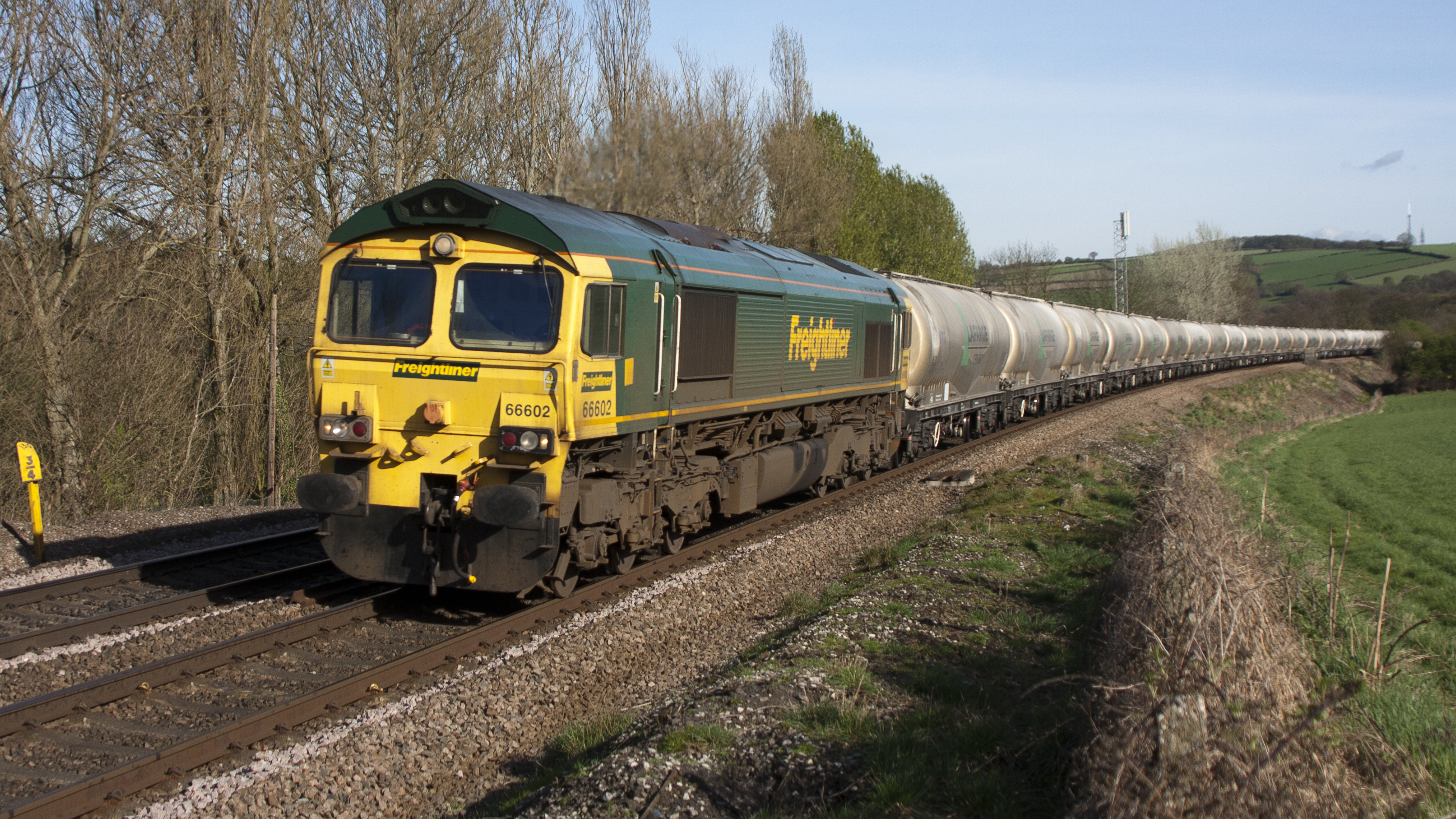 6M91 Theale - Earles sidings empty cement tanks